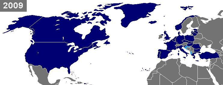 Map of the expansion of the intergovernmental military alliance NATO by Croatia and Albania on April 1, 2009.